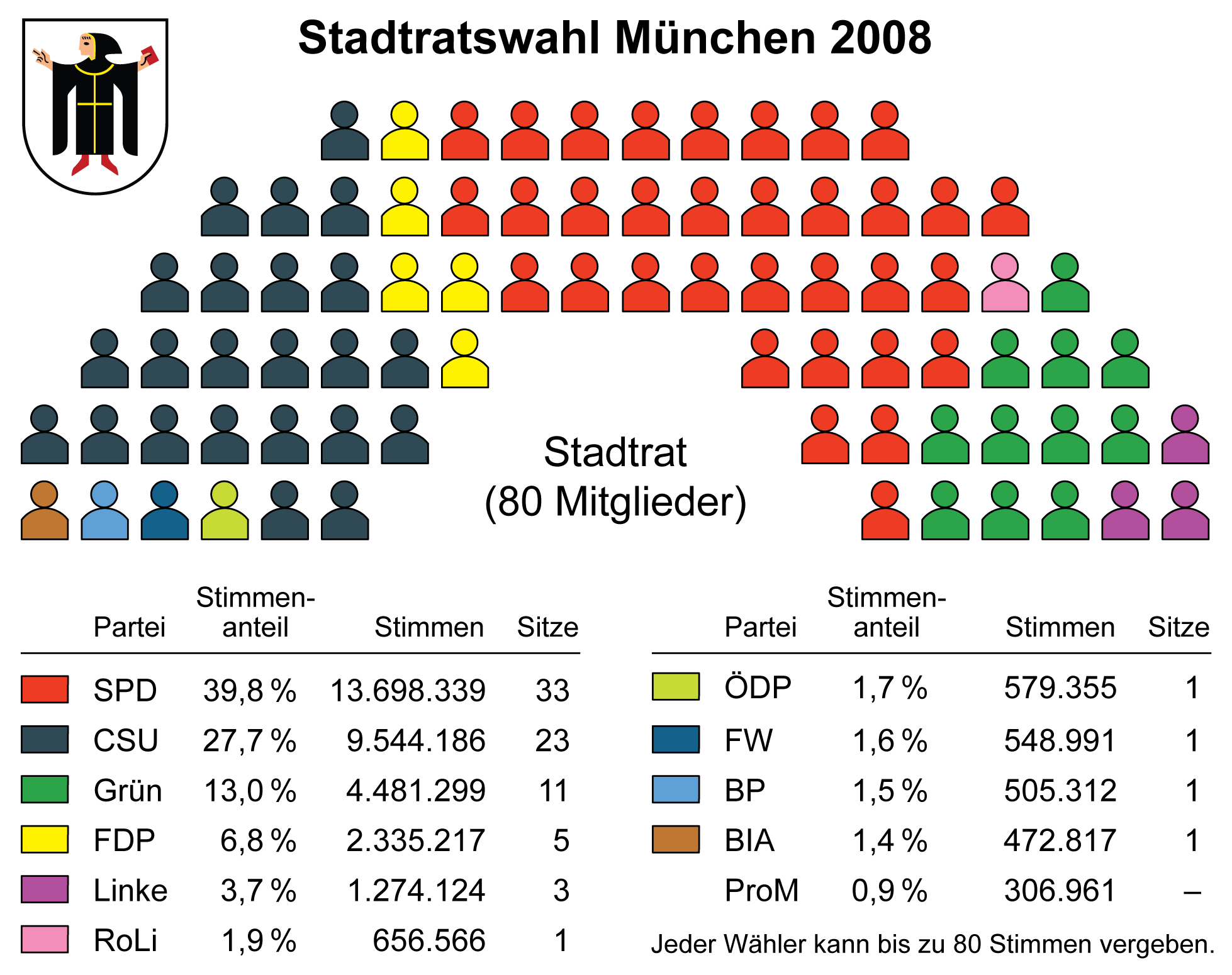 Results of the communal elections of Munich 2008